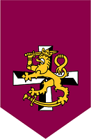 This is the official insignia of Defence Command of the Finnish Defence Forces